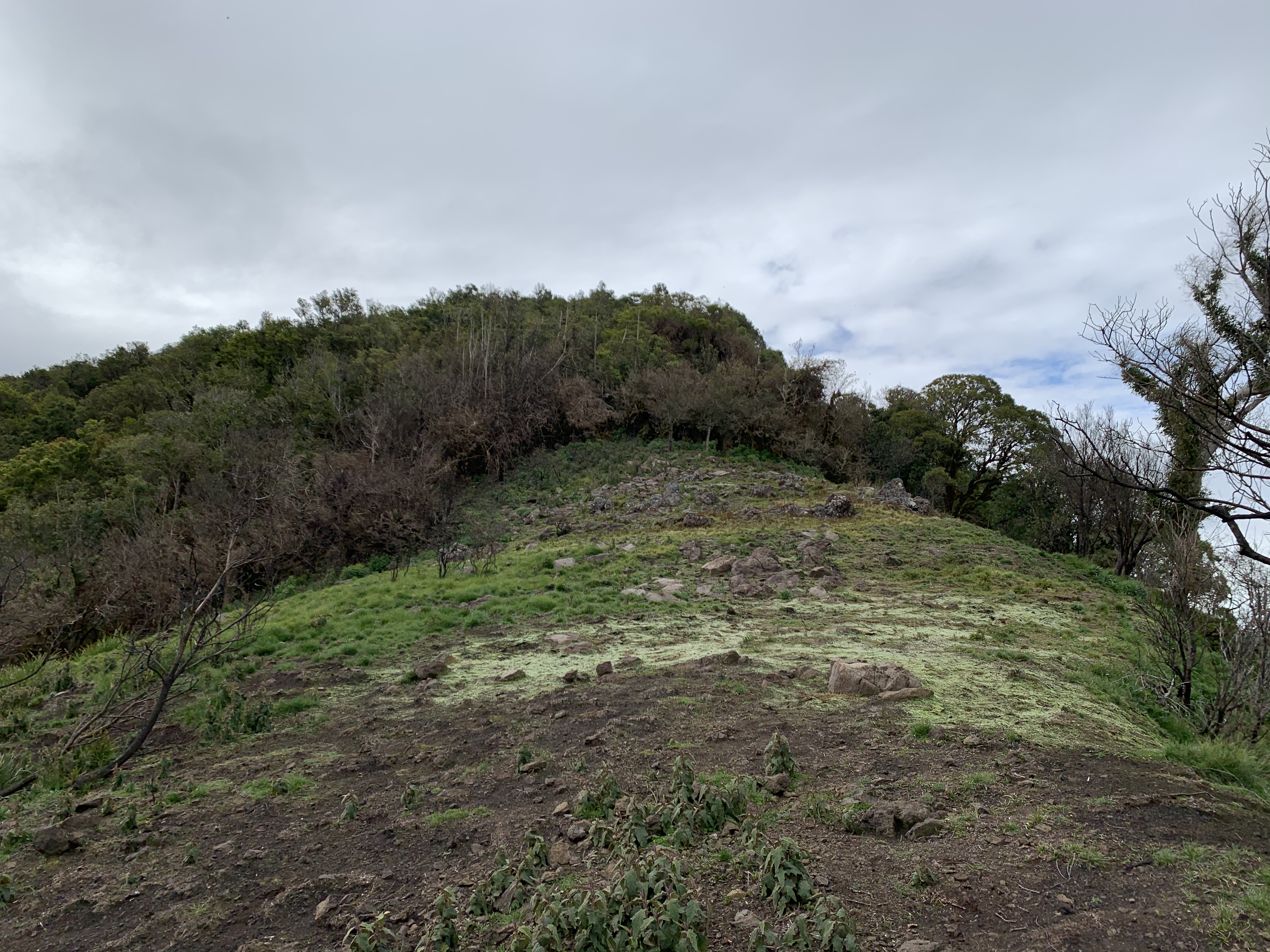 View of an overgrown section of Mount Royal.